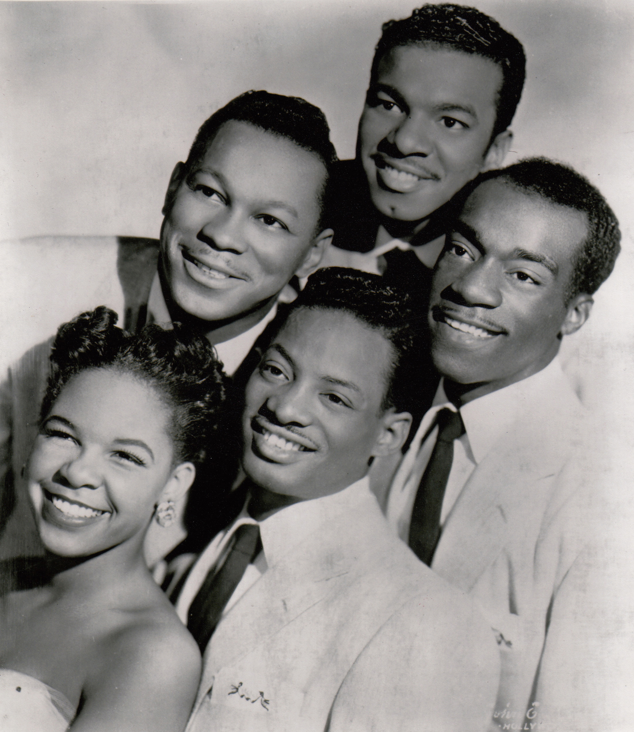 A photo of the original group The Platters provided by Paul Robi's Daughter and Wife